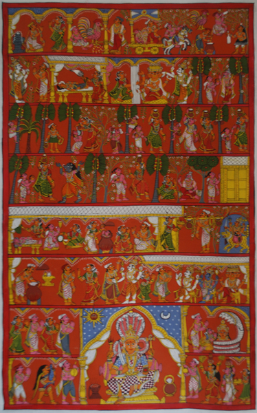 Cherial Scroll painting